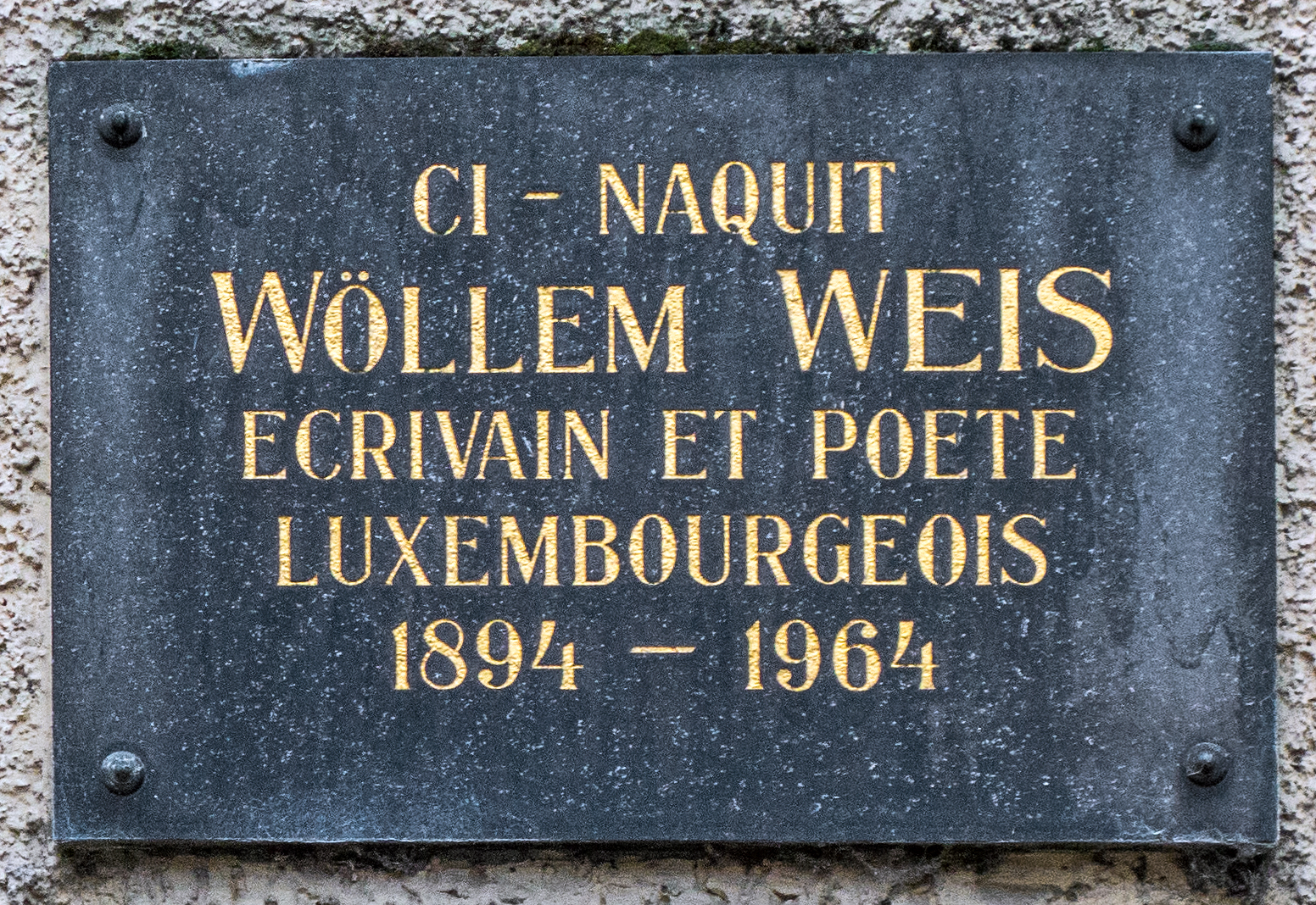 Commemorative plaque on the house in Clausen, where Wilhelm Weis was born